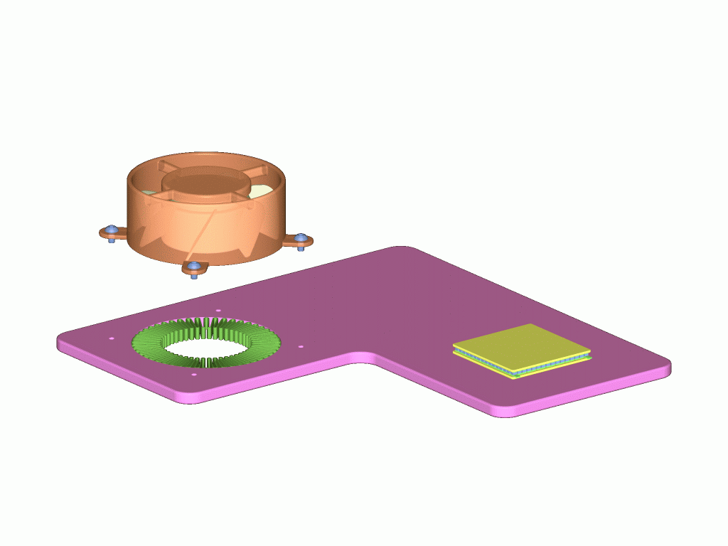 Thin Flat Heat Pipe (vapor chamber) with Fan and Peltier Cooler History of Image:IsoSkin2.gif 2008-02-18T07:05:49Z Jesse Viviano (Talk